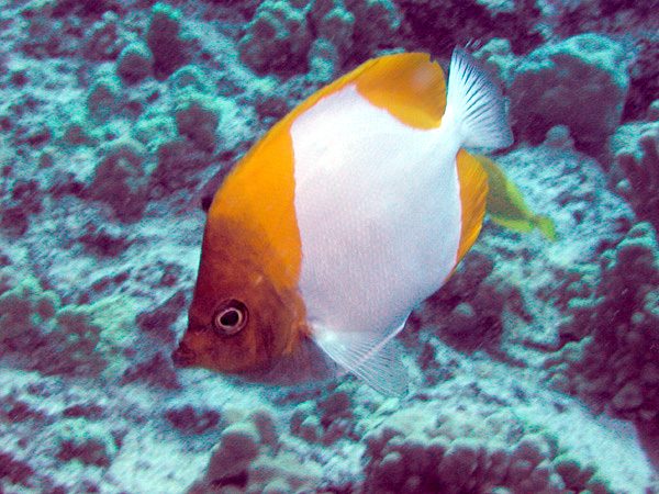 Pyramid Butterflyfish (Hemitaurichthys polylepis), Kona, Hawaii. Image taken by Clark Anderson/Aquaimages. Category:Butterflyfish images